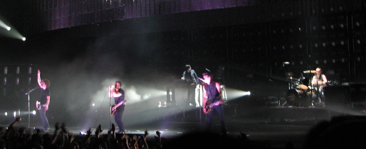 Taken at the September 5th, 2008 Nine Inch Nails concert in Oakland, California.